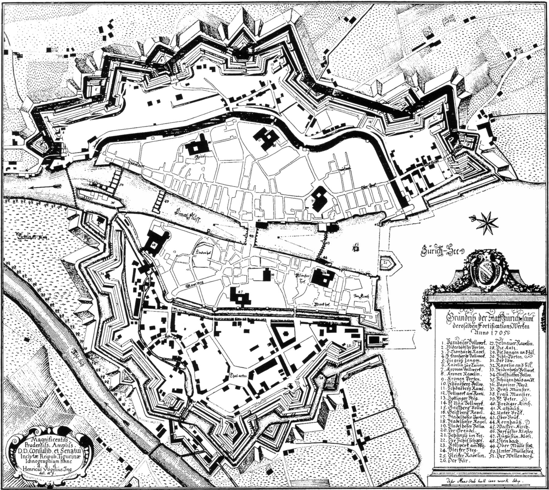 The City of Zurich with fortifications during the 18th century